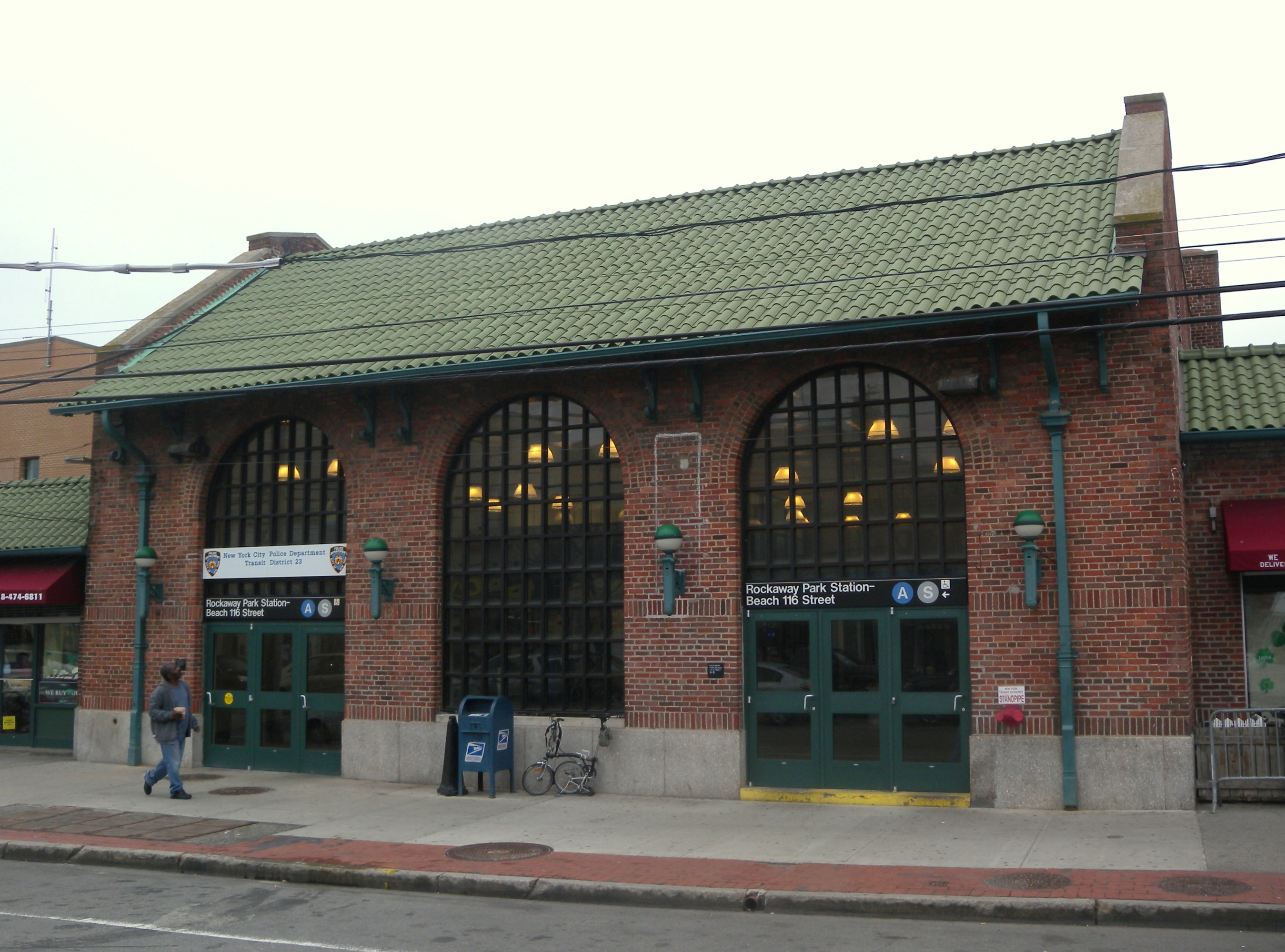 Looking east at terminal on a cloudy midday.